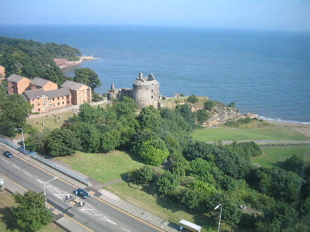 Ravenscraig Castle. Seen on a fine summer day from the nearby multi-storey flats